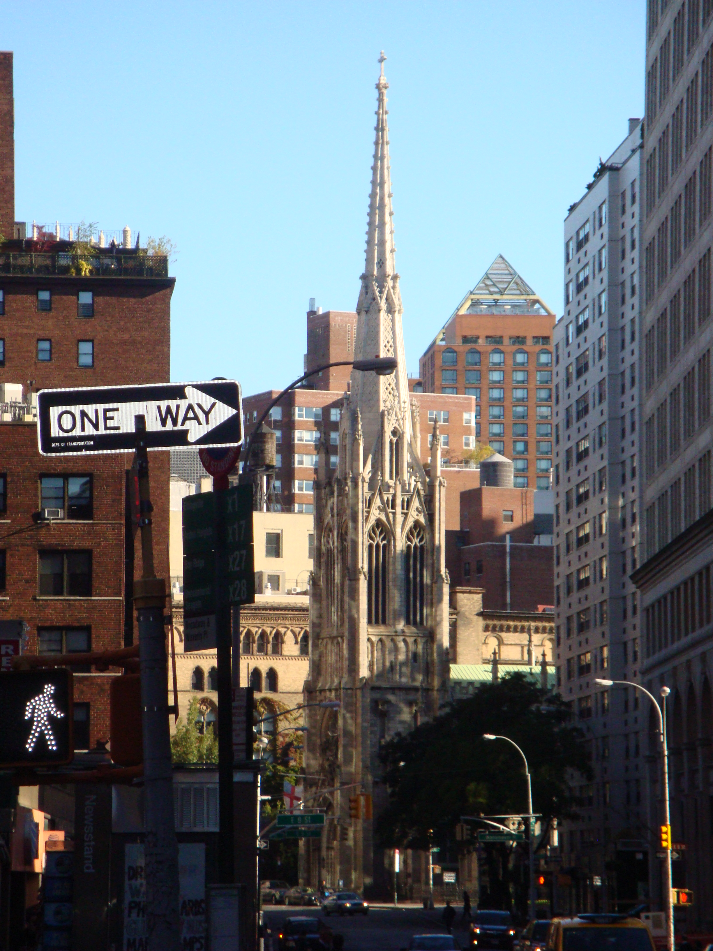 Grace Episcopal Church, Broadway and 11th Street, looking up Broadway. Site: Grace Episcopal Church